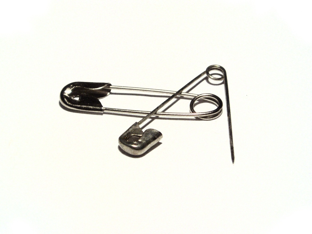 Safety pins, photographed by Richard Wheeler (Zephyris) 2007.